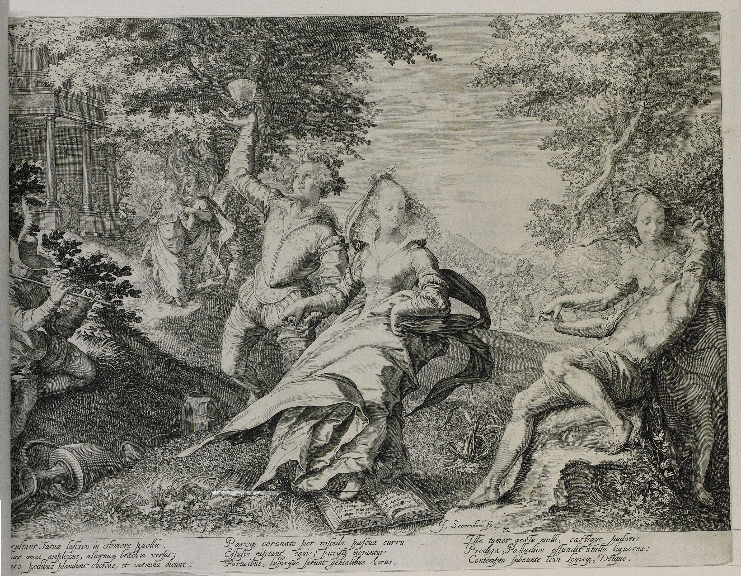 Bacchanalian scene, "Törichte Jungfrauen auf einem Fest", "Exultant fatuae lascivo in amore puellae", Parable of the Wise and Foolish Virgins